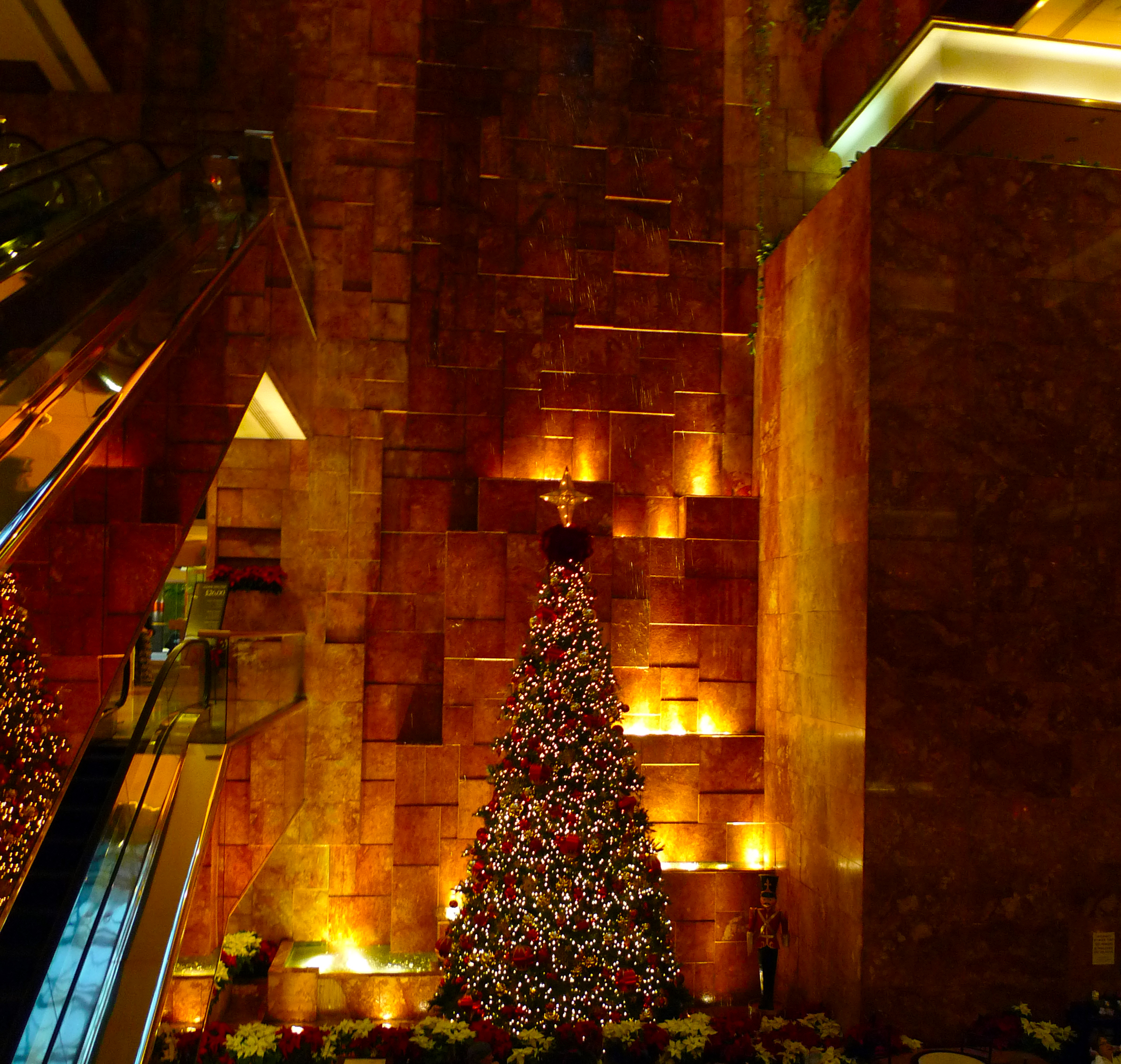 Trump Tower New York Lobby Christmas Tree photo D Ramey Logan